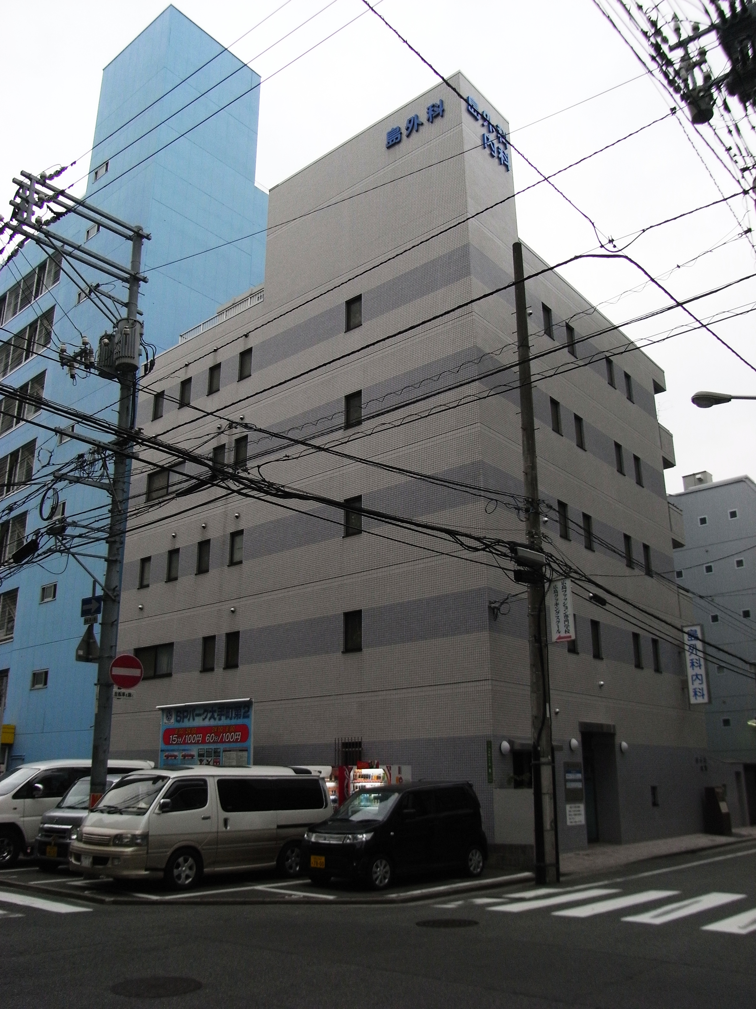 Shima geka naika